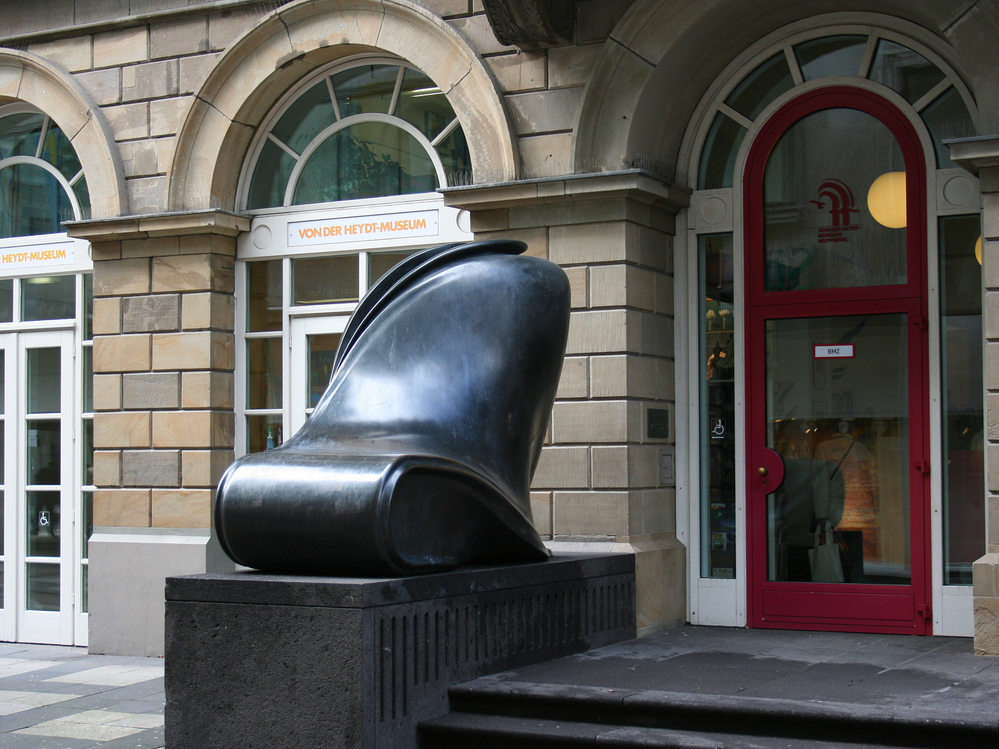 Von-der-Heydt-Museum in Wuppertal-Elberfeld, Tony Cragg: Early Forms - Amphore/Dose